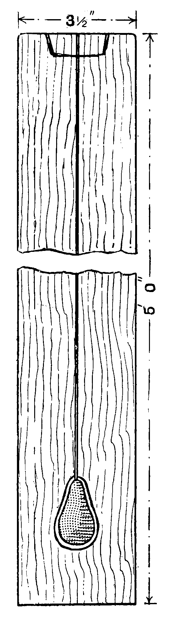 →This file has been extracted from another file: Cassells' Carpentry and Joinery.djvu